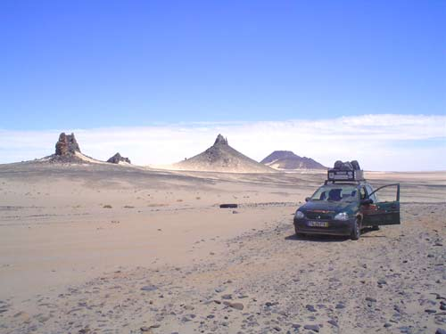 Evora Tambacounda Overland Expedition 2004. South West Europe to West Africa. Picture: Rich Mountains in forbidden Saharan Desert tracks North of Mauritania.